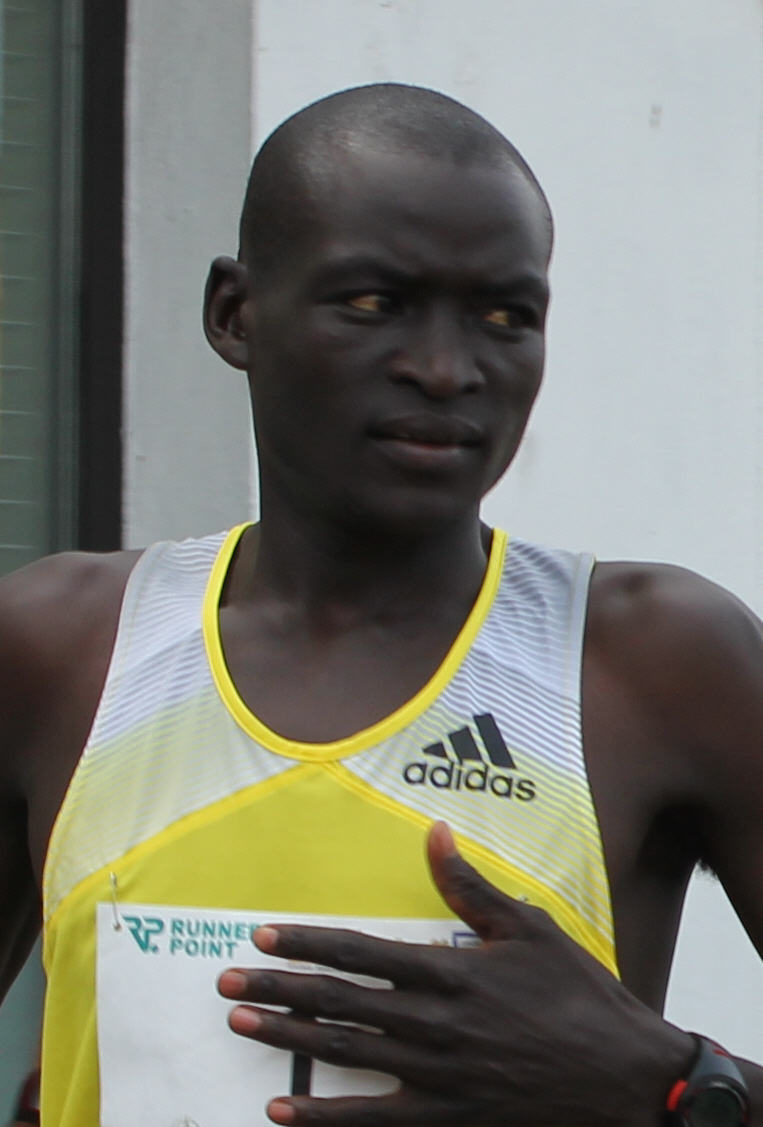 Dennis Kipruto Kimetto 2013 in Schortens